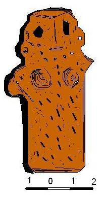 Statue from Ichery-Sheher (Old Baku)